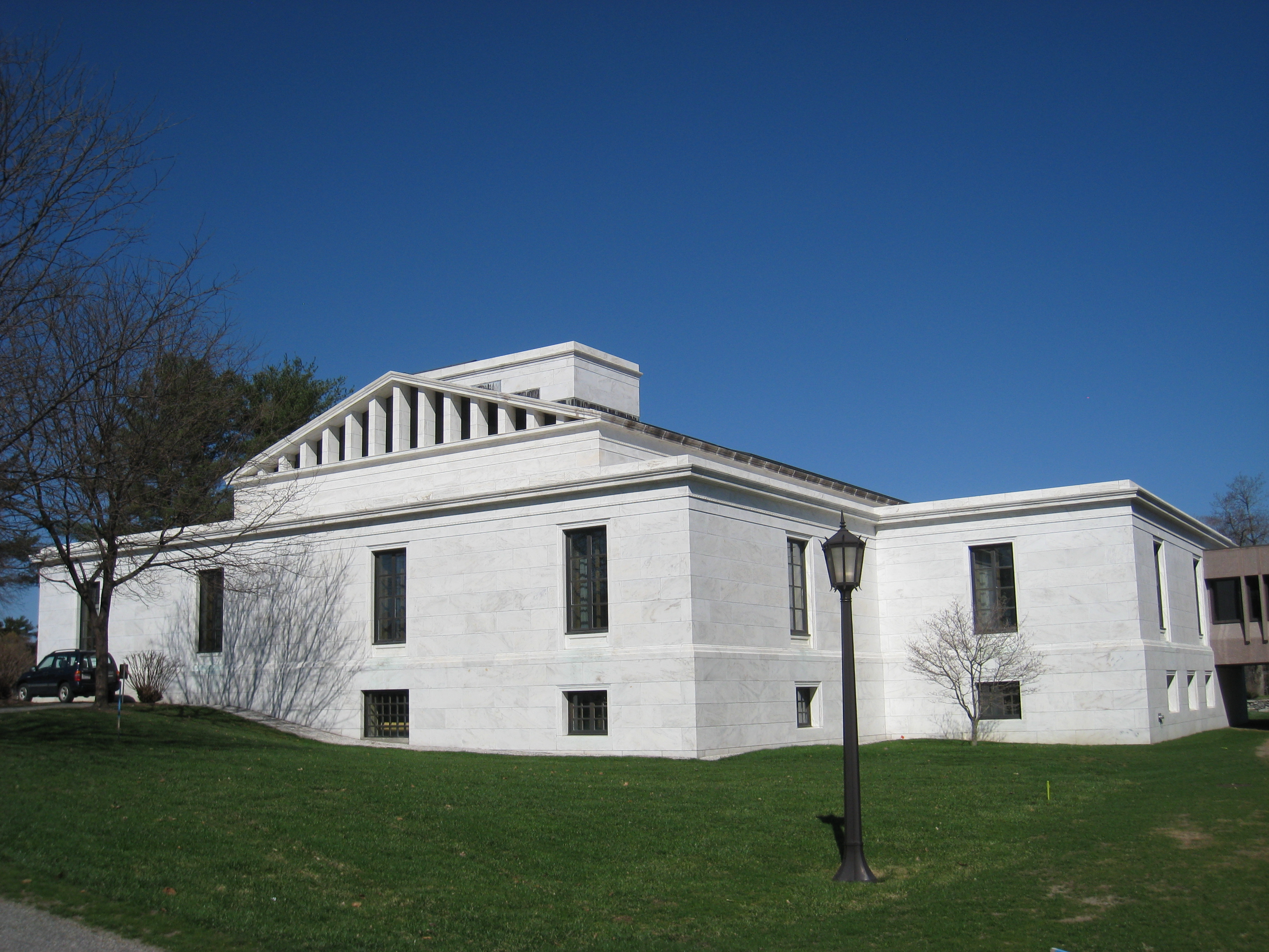 Old gallery (back side) of the Clark Art Institute, Williamstown, Massachussetts, United States.